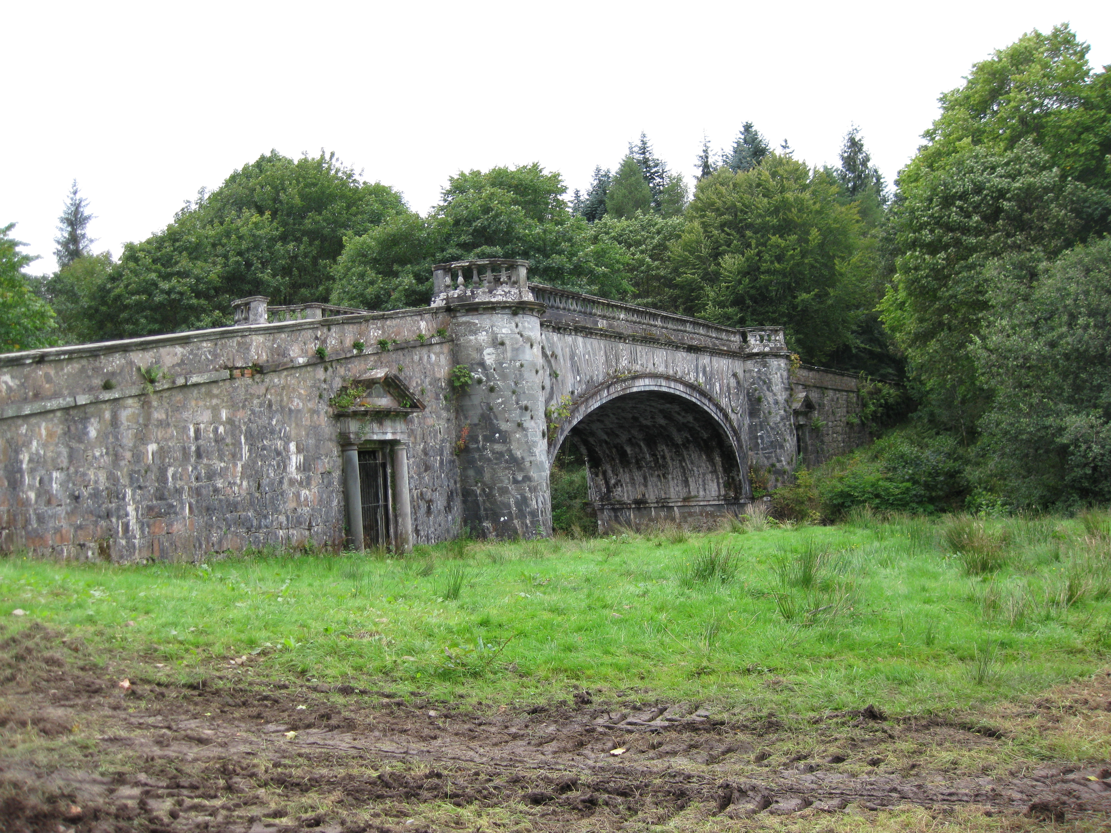 Bridge over River Aray Bridge on the Duke of Argyll's Estate